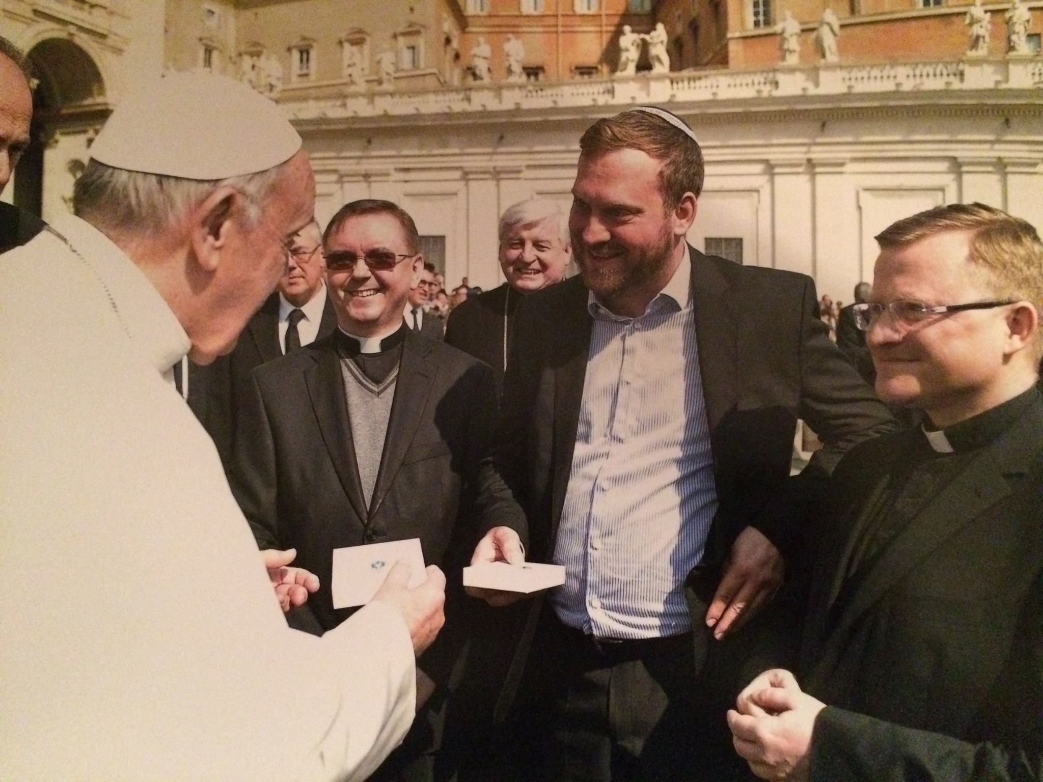 CJCUC Central European Director, Rabbi Josh Ahrens, meets with Pope Francis, April 6th, 2017